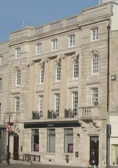 Clipped version of a Geograph image which was described as follows (see Other Versions below): Ponden Home Interiors, Hastings. Natwest Bank and Havelock Road to the left. The bank building was originally for the London and County Bank, and was constructed by John Howell of Hastings, who was working from the 1850s to the early 1890s. The date of this building is not known.